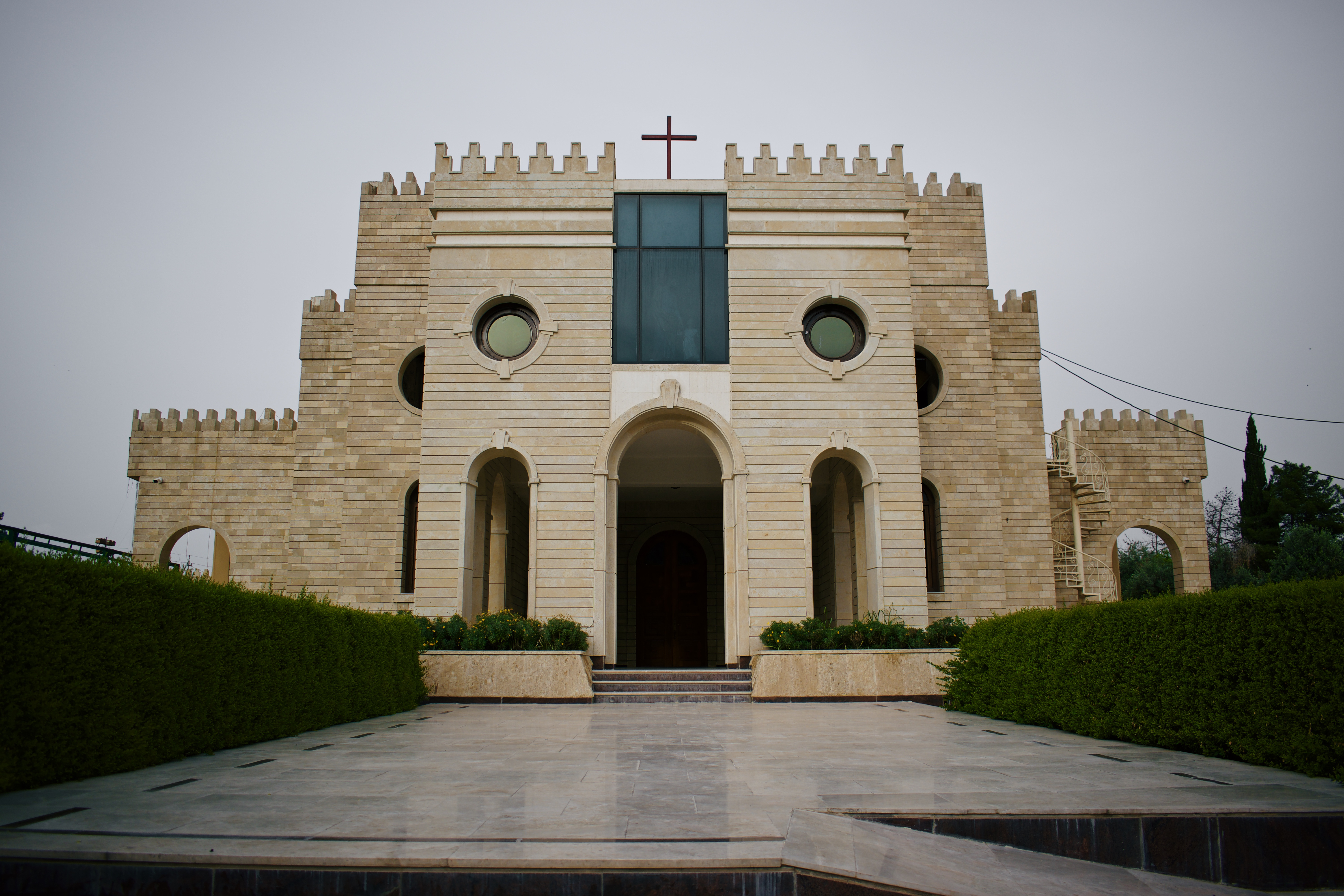 Views of the Church of Saint Joseph in Ankawa